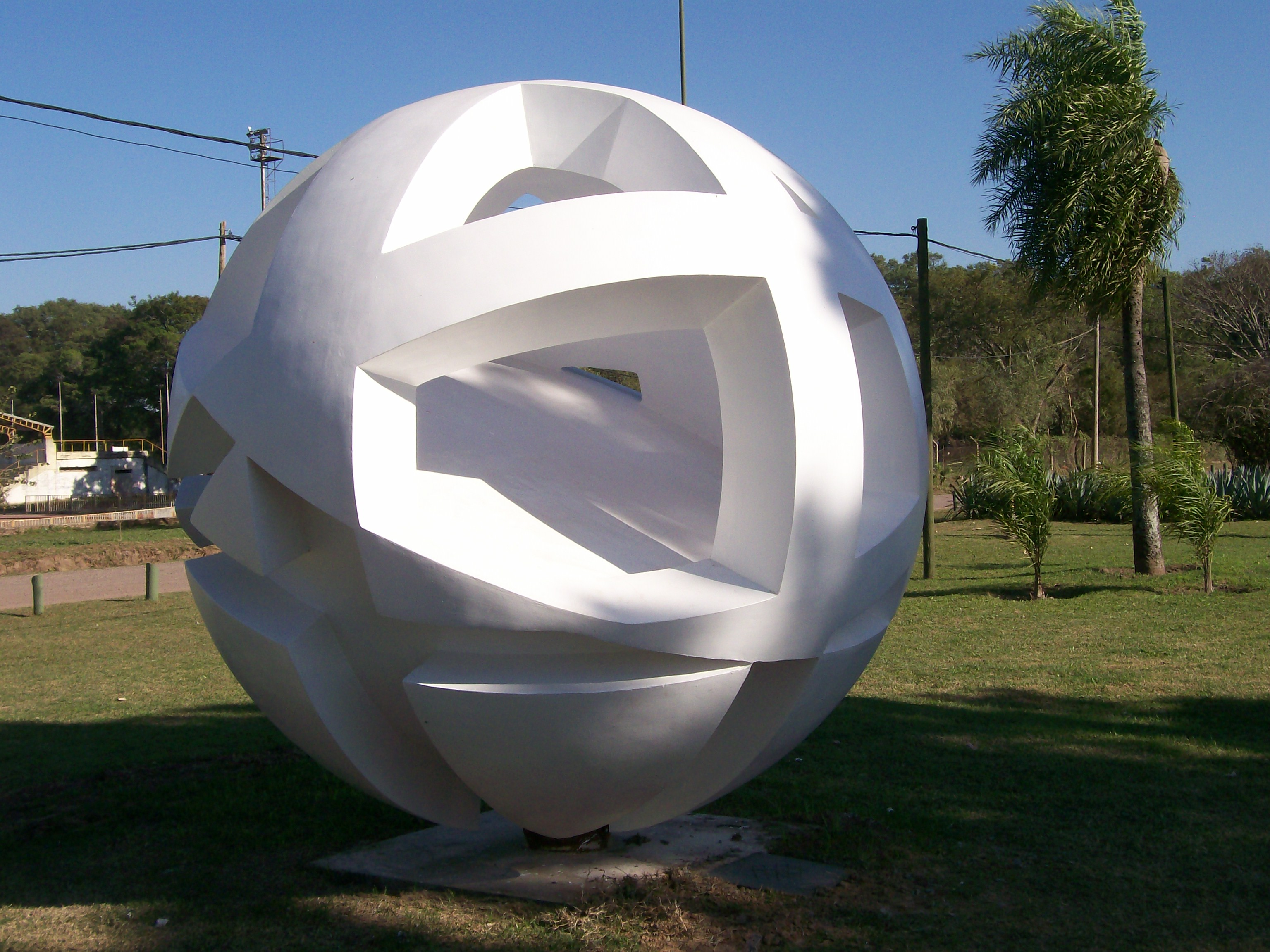 Sculpture in 2 de Febrero Park, Resistencia, Chaco, Argentina.